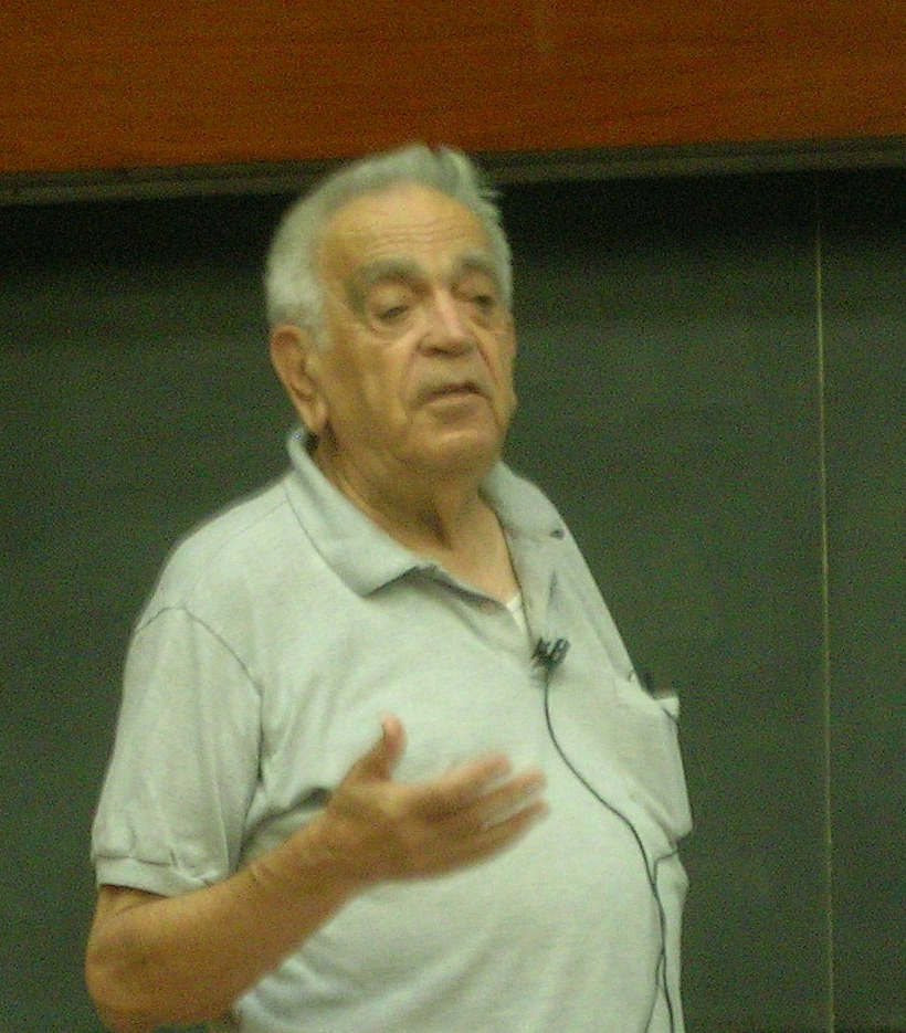 Amotz Zahavi, speaking at IISc, Bangalore